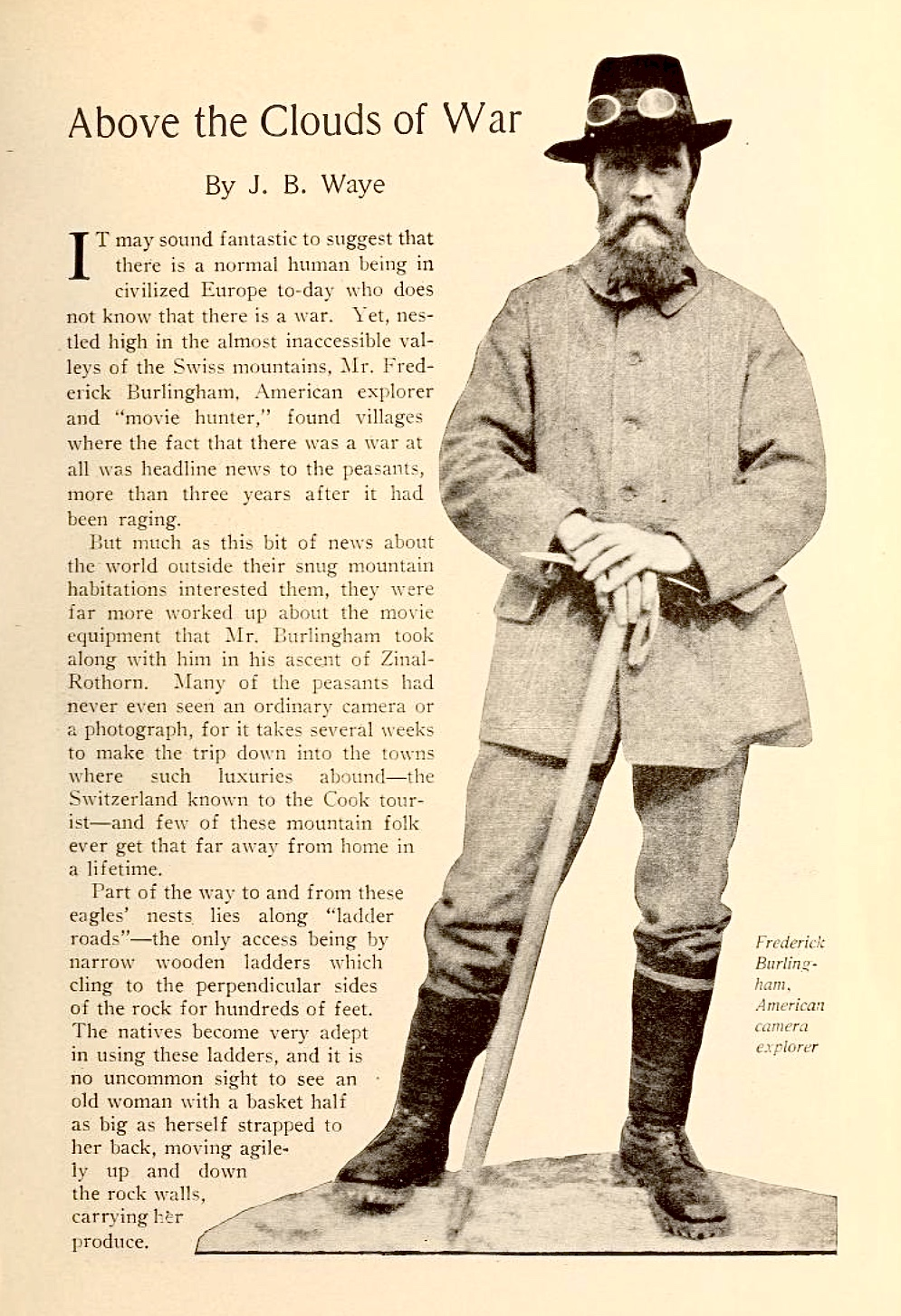 Frederick H. Burlingham, "American camera explorer", featured in article "Above the Clouds of War" by J. B. Waye in Picture-Play Magazine (New York, N.Y.), August 1918, p. 221. Full-figure photograph of Burlingham in his mountain-climbing outfit.